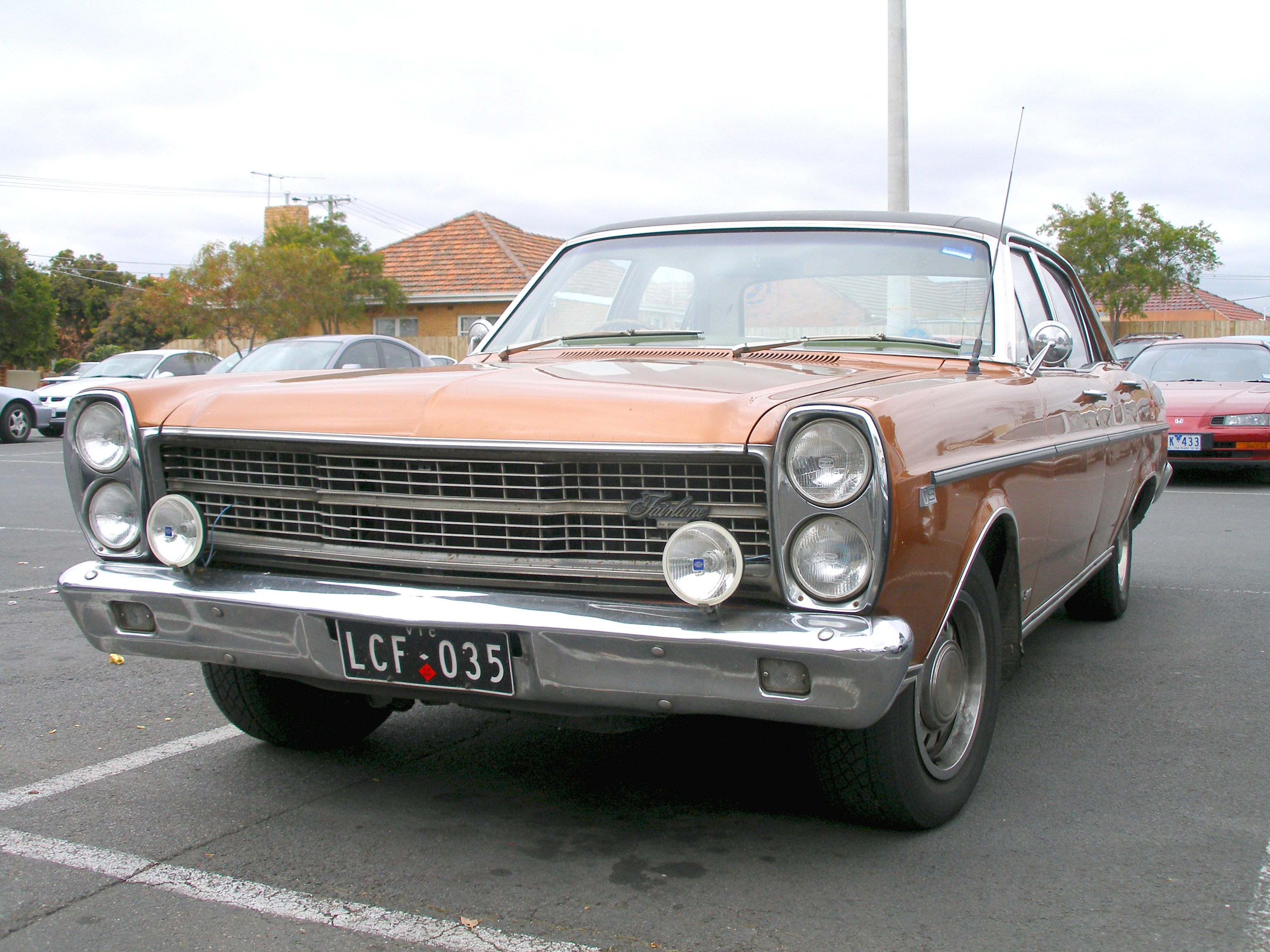 1970-1972 Ford ZD Fairlane 500, photographed in Victoria, Australia.